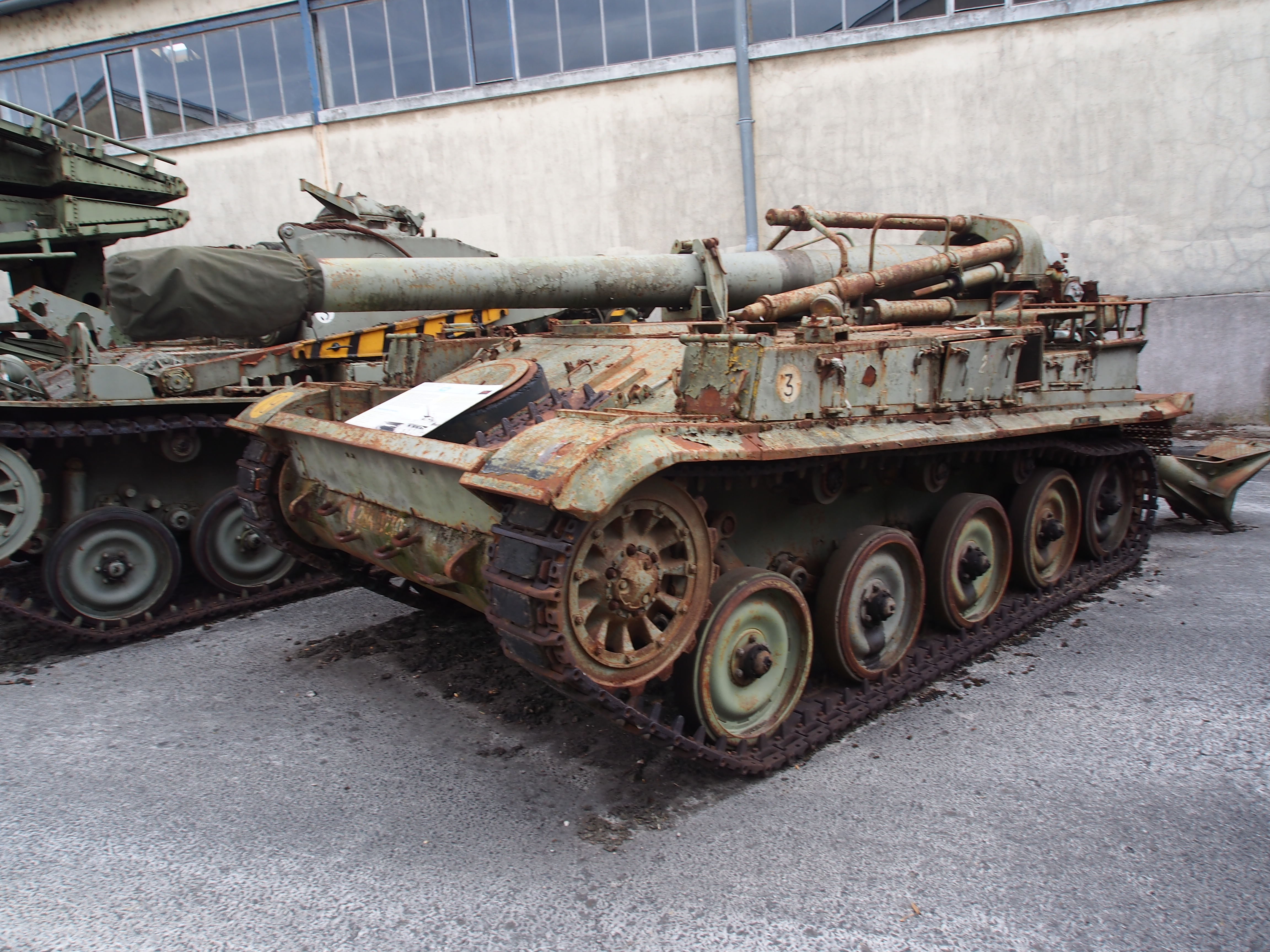 Photographed in the Musée des Blindés, France.